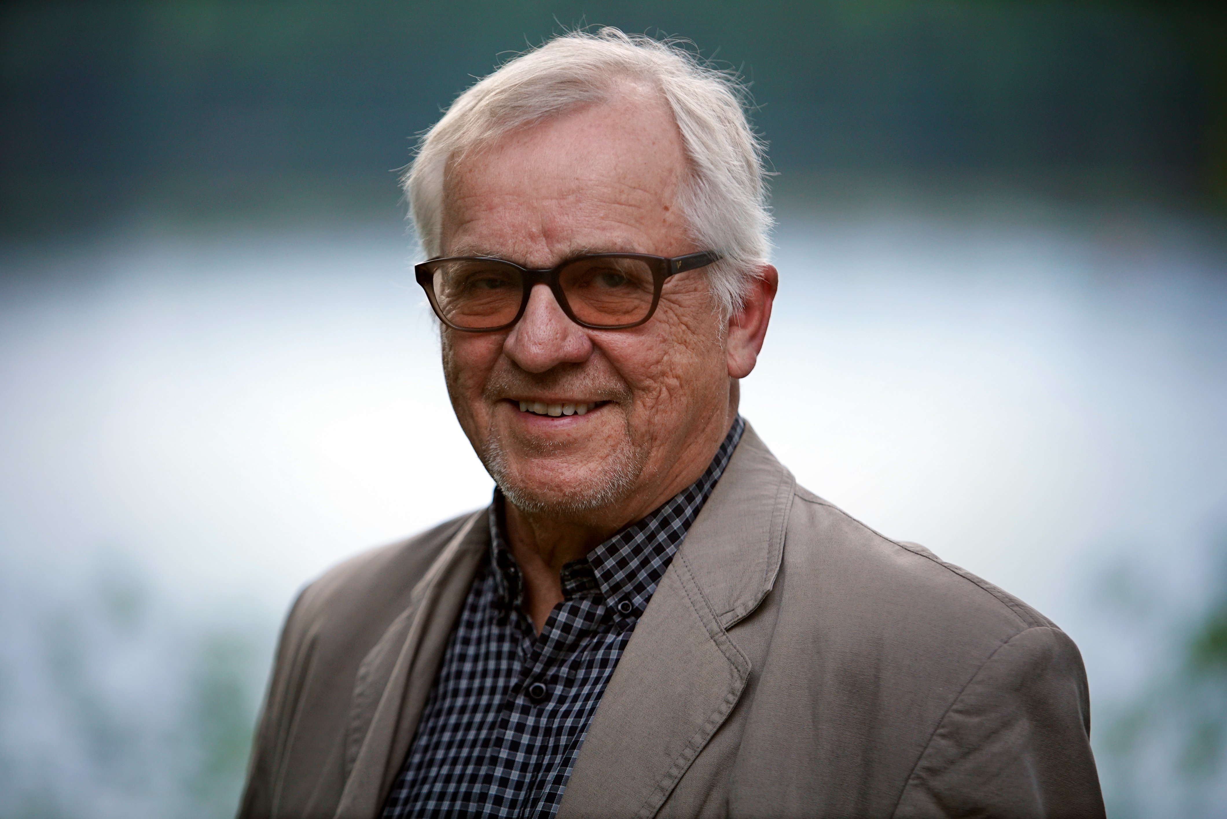 Photograph of Pentti Järvinen